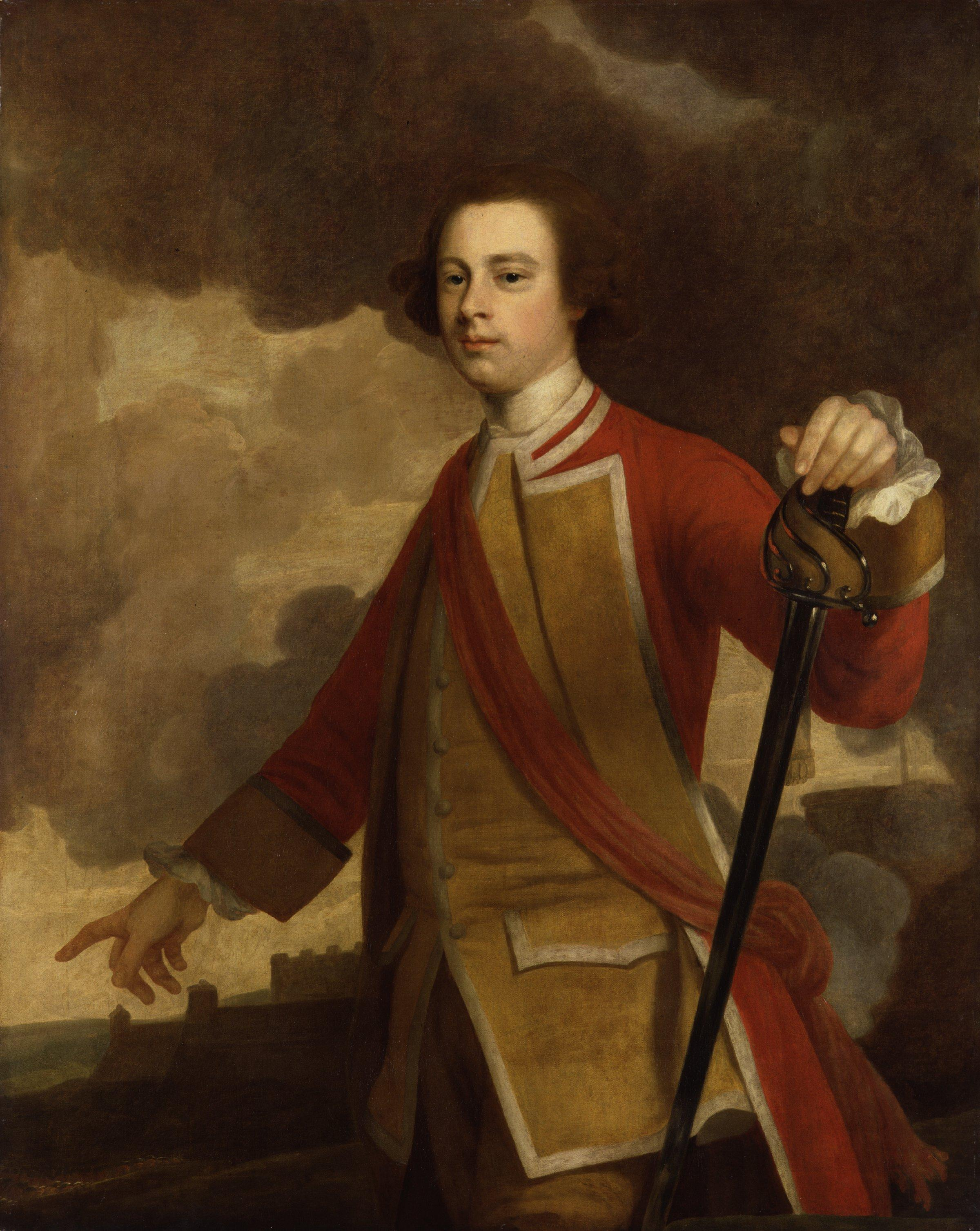 James Wolfe, by unknown artist. All images in this batch have an unknown author, but there is strong evidence it was first published before 1923 (based mainly on the NPG's estimated date of the work).